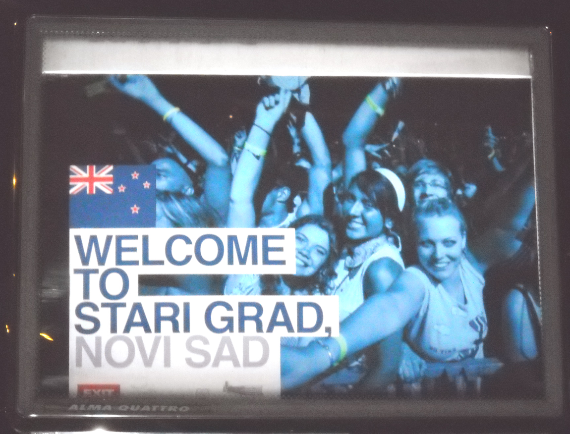 Welcome to Stari Grad - billboard in English language in Stari Grad neighborhood of Novi Sad, posted during EXIT 2010 music festival.